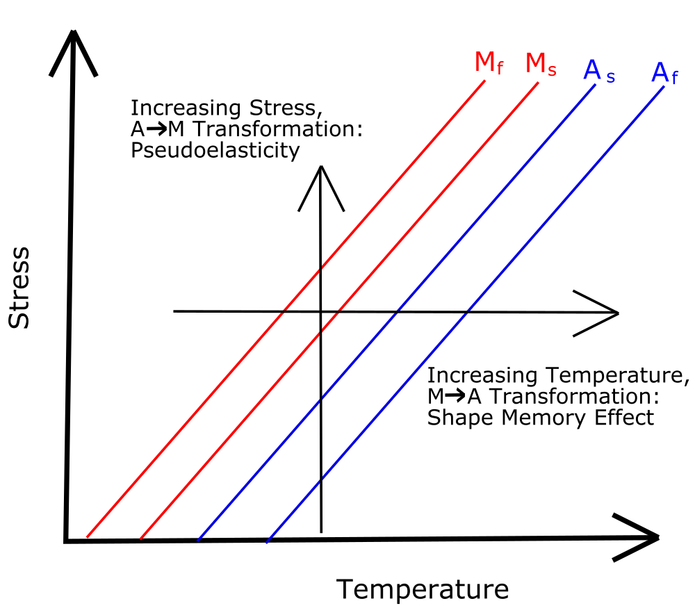 The shape memory effect happens when detwinned martensite is heated into austenite (moving right on the graph). This phase transformation creates austenite with the same macroscopic shape as the twinned martensite. When the austenite is cooled back into martensite, the shape does not change. The pseudoelastic effect happens when austenite is stressed into martensite (moving up on the graph). This phase transformation allows the martensite to detwin. When the load is released, the detwinned martensite transforms back into austenite with the original shape, creating the illusion of superelasticity.